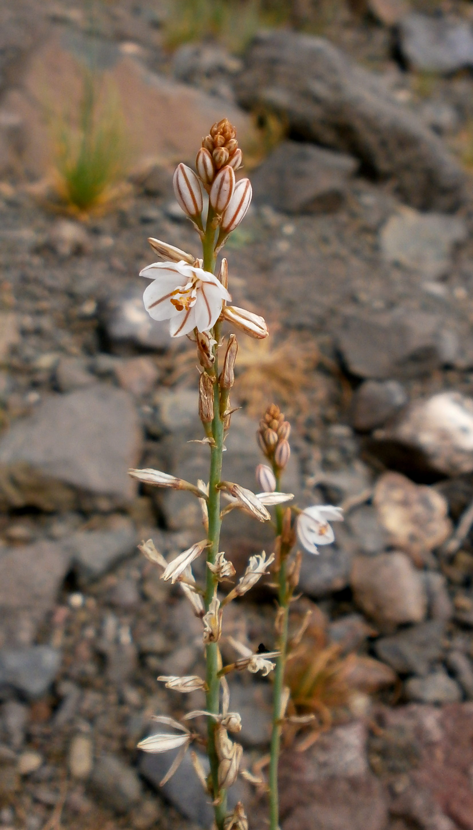 Asphodelus tenuifolius Cav., inflorescence; Gran Valle, Jandía, Fuerteventura, Canary Islands, Spain.